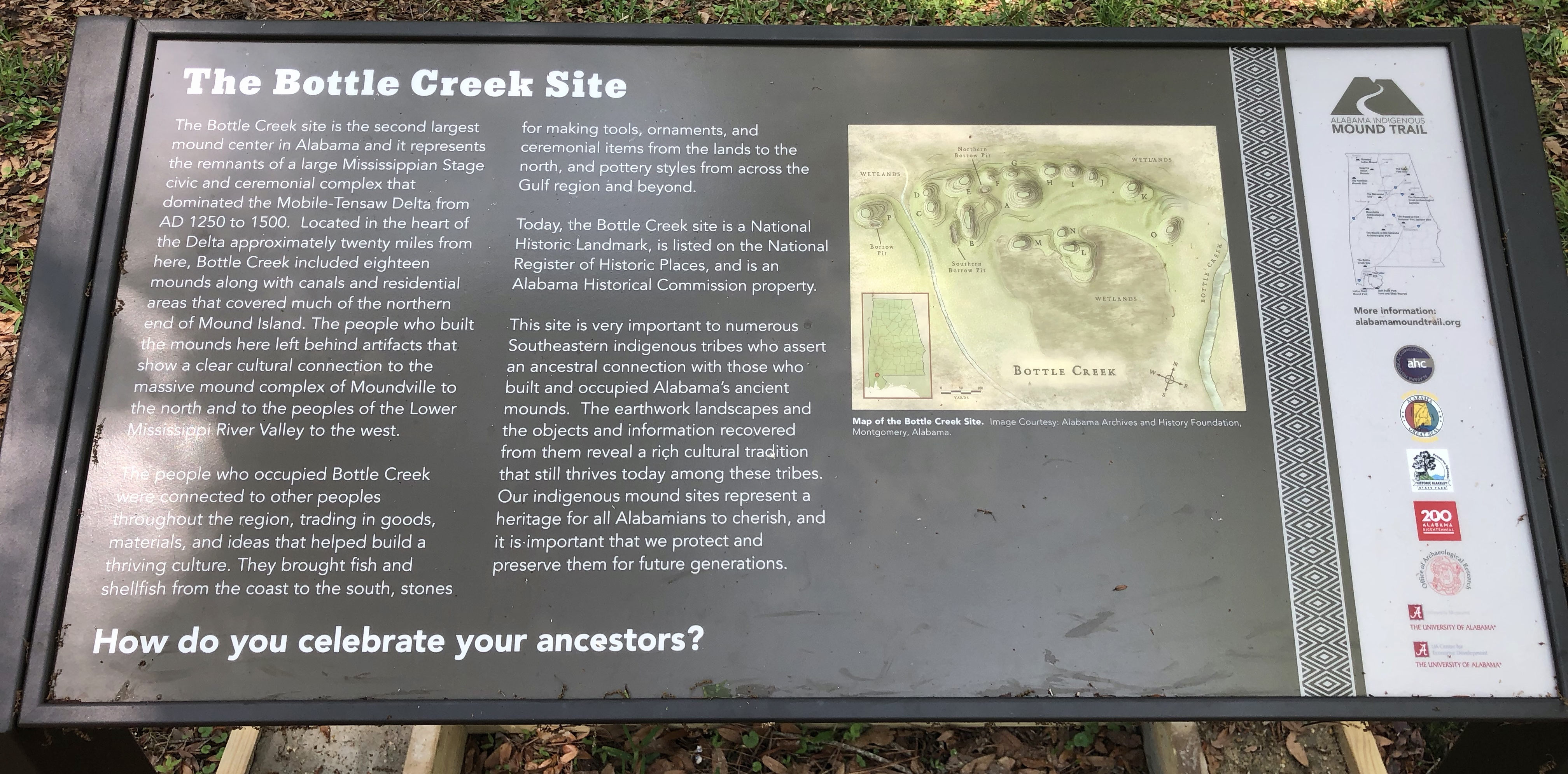 Historic marker about the Bottle Creek Indian Mounds in the Tensaw Delta.